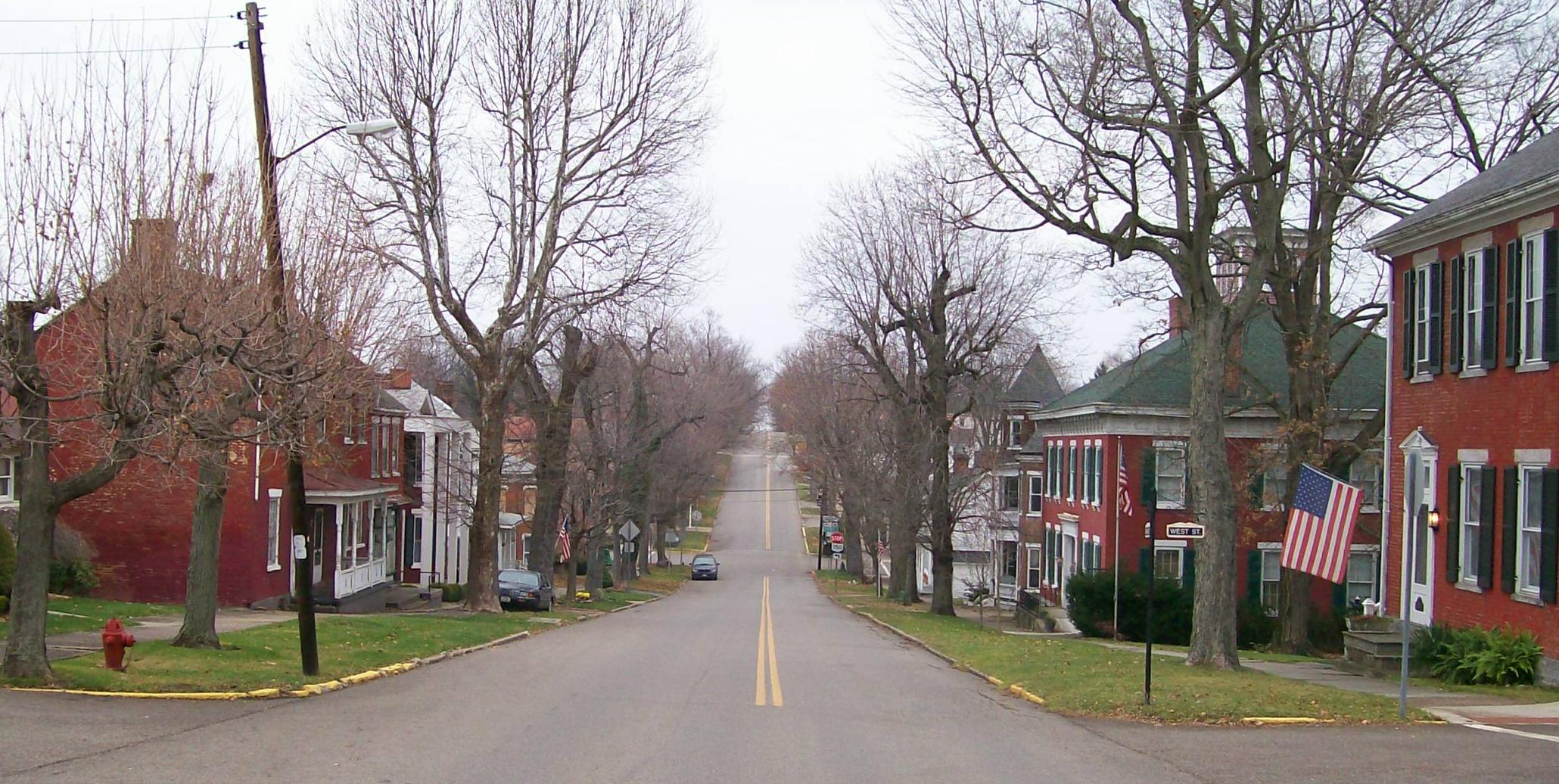 The Mount Pleasant Historic District in Ohio looking east along Union Street from its junction with Market Street. The district was added to the National Register of Historic Places in 1974 for national significance in the abolitionist movement including being a stop on the Underground Railroad and intact architectural integrity. Taken on 2009-11-21.